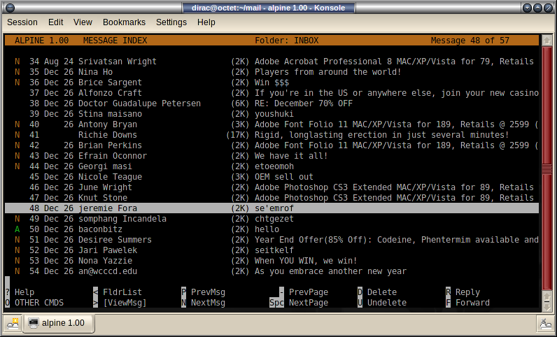 Screen shot of Alpine version 1.00 and a KDE desktop of a Gentoo GNU/Linux box.